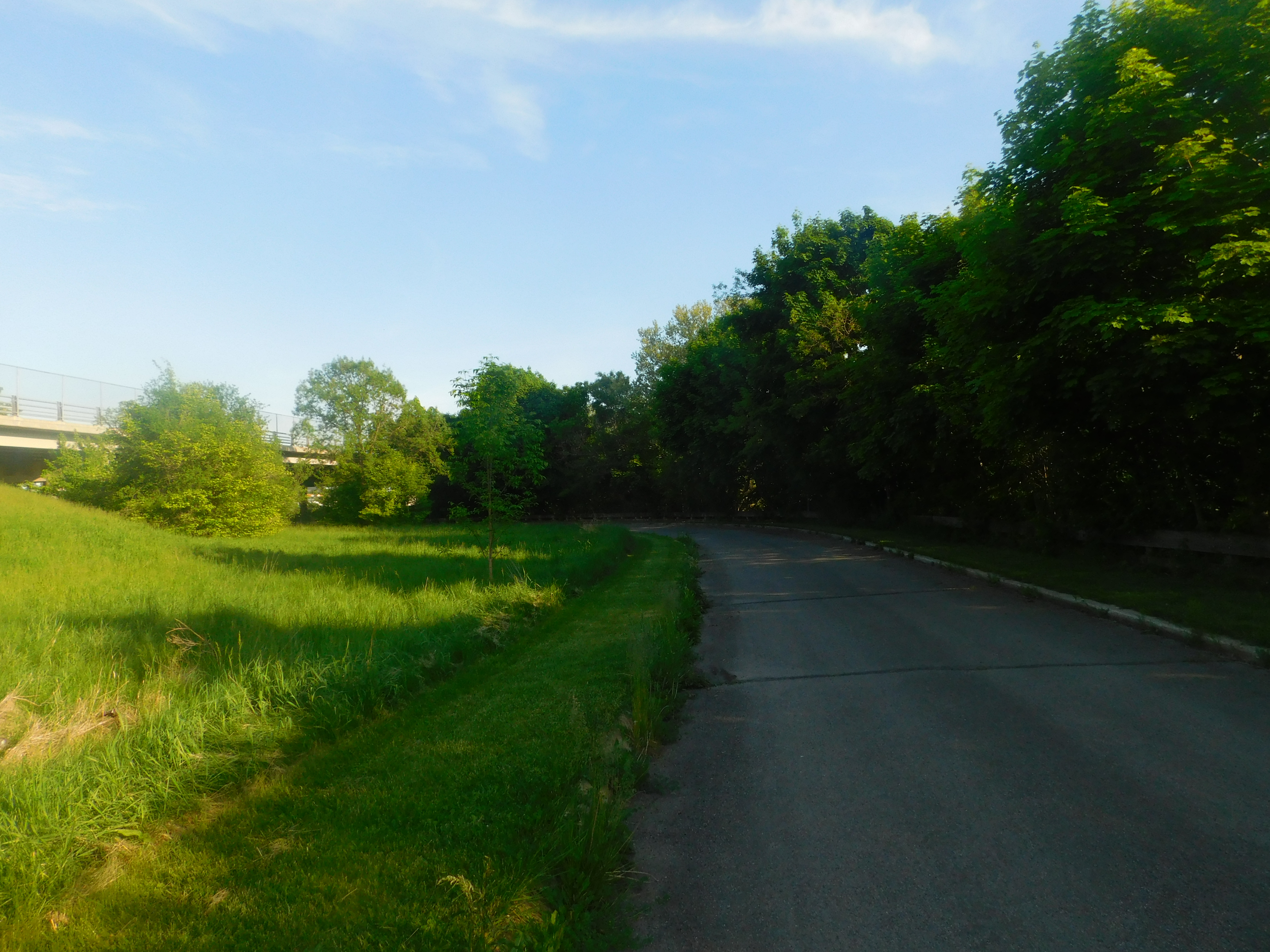 The abandoned ramp from the Niagara Scenic Parkway to NY 182.